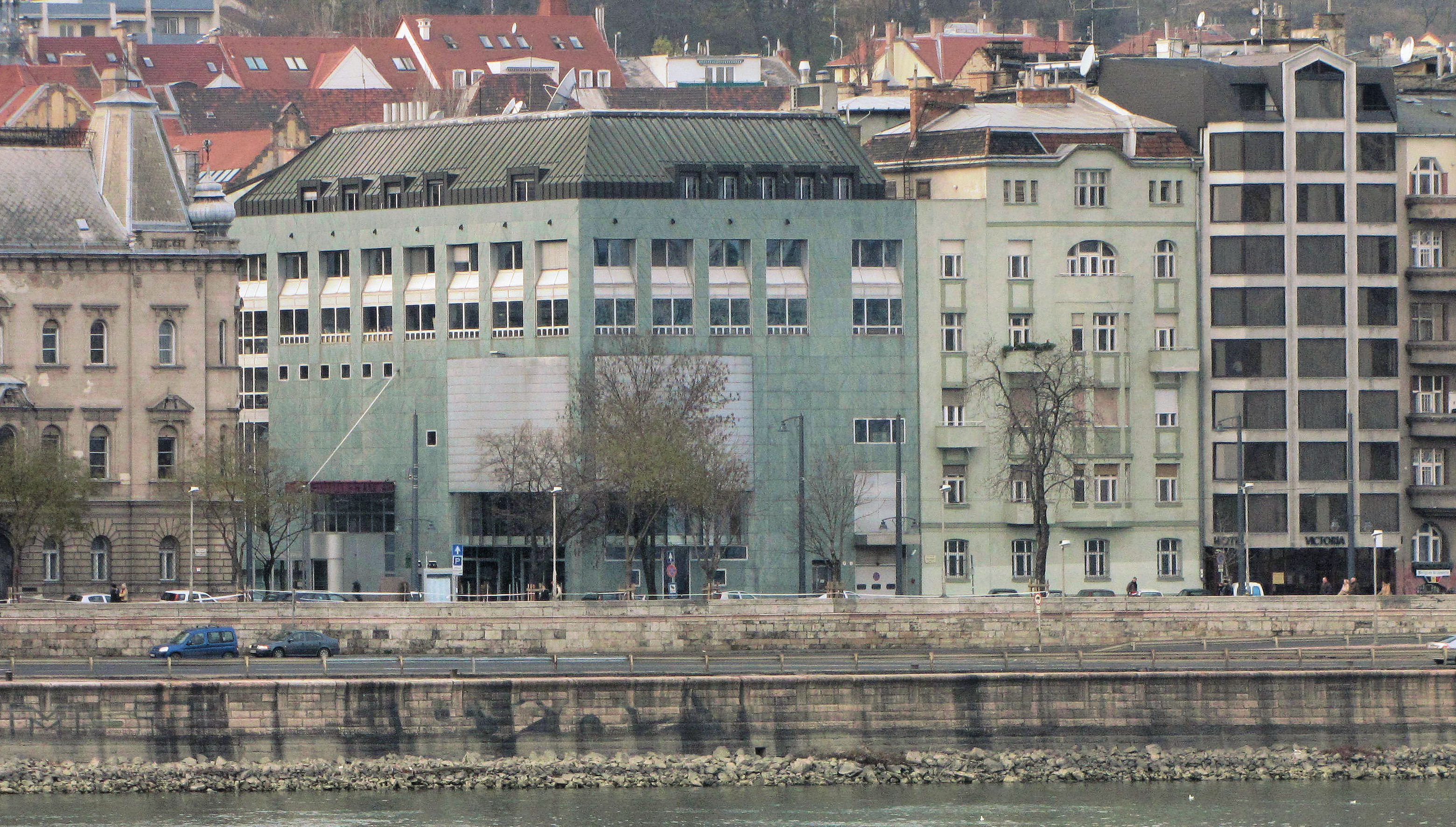 French Institut, Budapest. Architect: Georges Maurios, 1991.